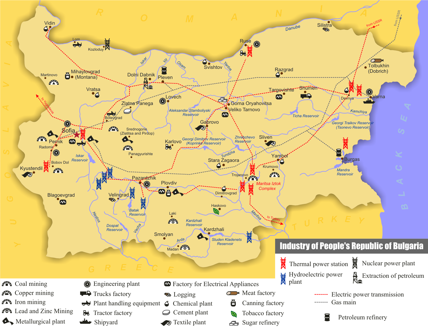 Industry of People's Republic of Bulgaria Основана на карта "Промишленост" (стр. 7) в "Атлас по родинознание за четвърти клас", КИПП по картография, София, 1984 г.